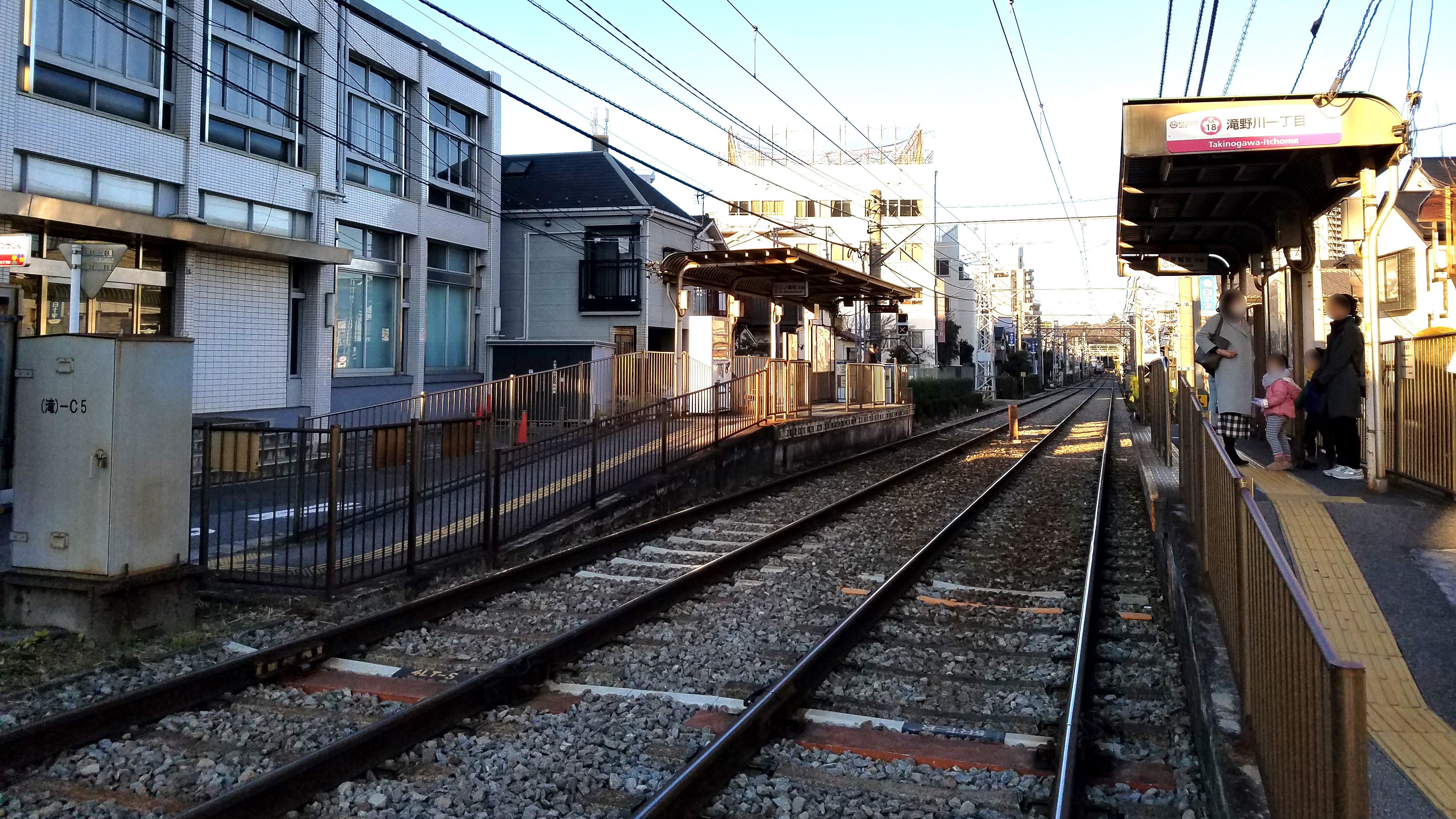 The platforms at Takinogawa-itchōme Station on the Toden Arakawa Line(Tokyo Sakura Tram) in Kita city, Tokyo, Japan